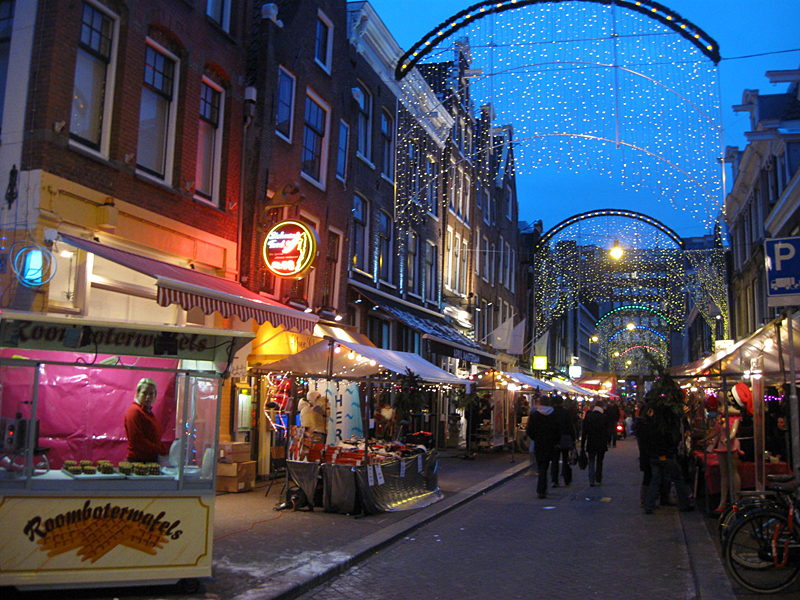 Pink Christmas Fair in Reguliersdwarsstraat in Amsterdam, December 2009.